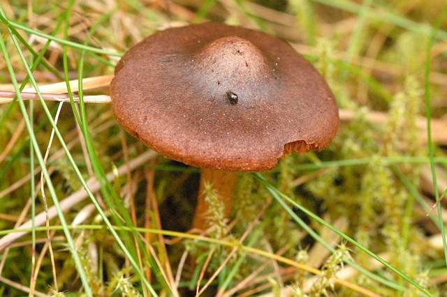 Cortinarius bataillei from Commanster, Belgian High Ardennes .